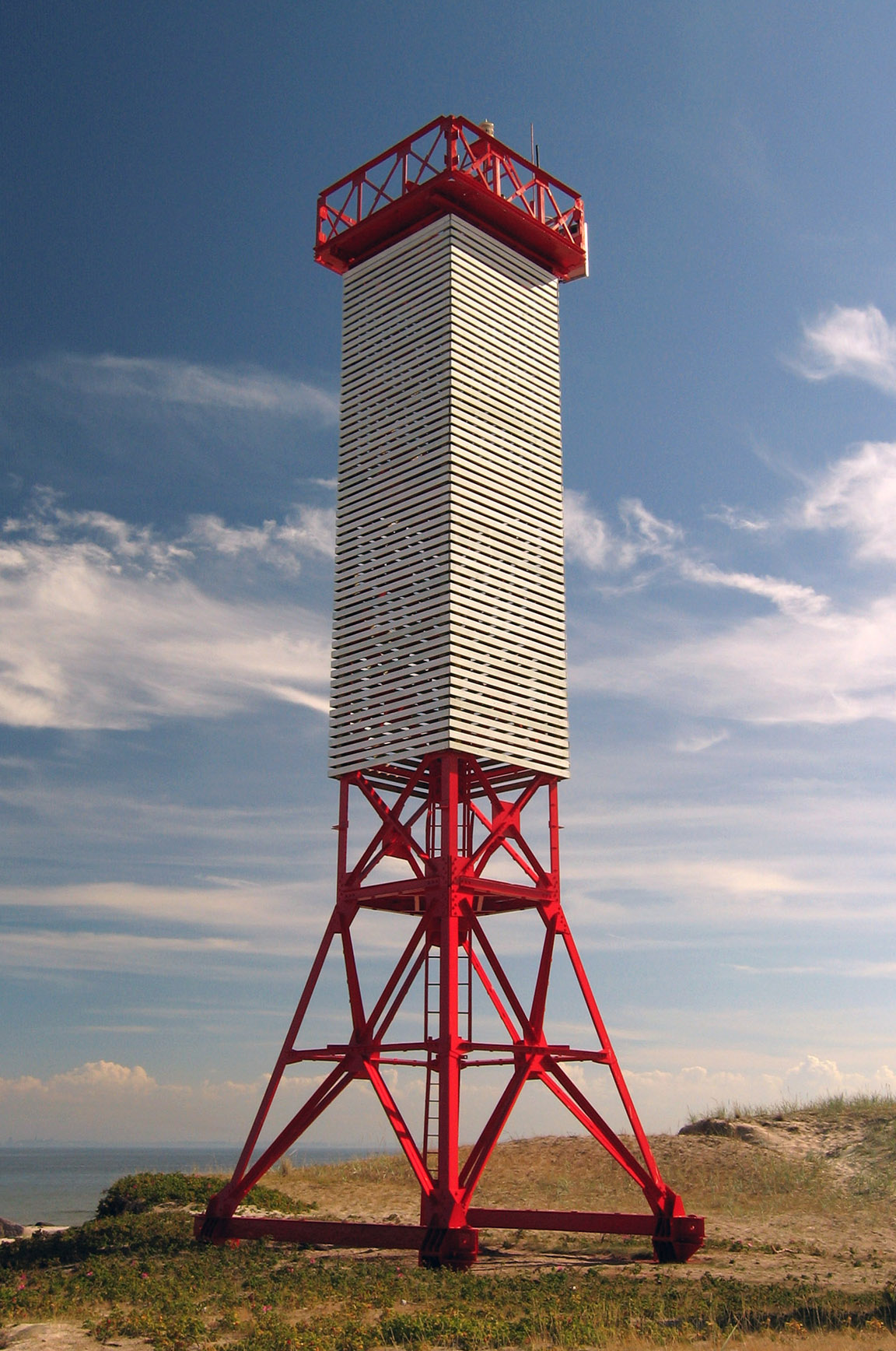 Hülkari light beacon